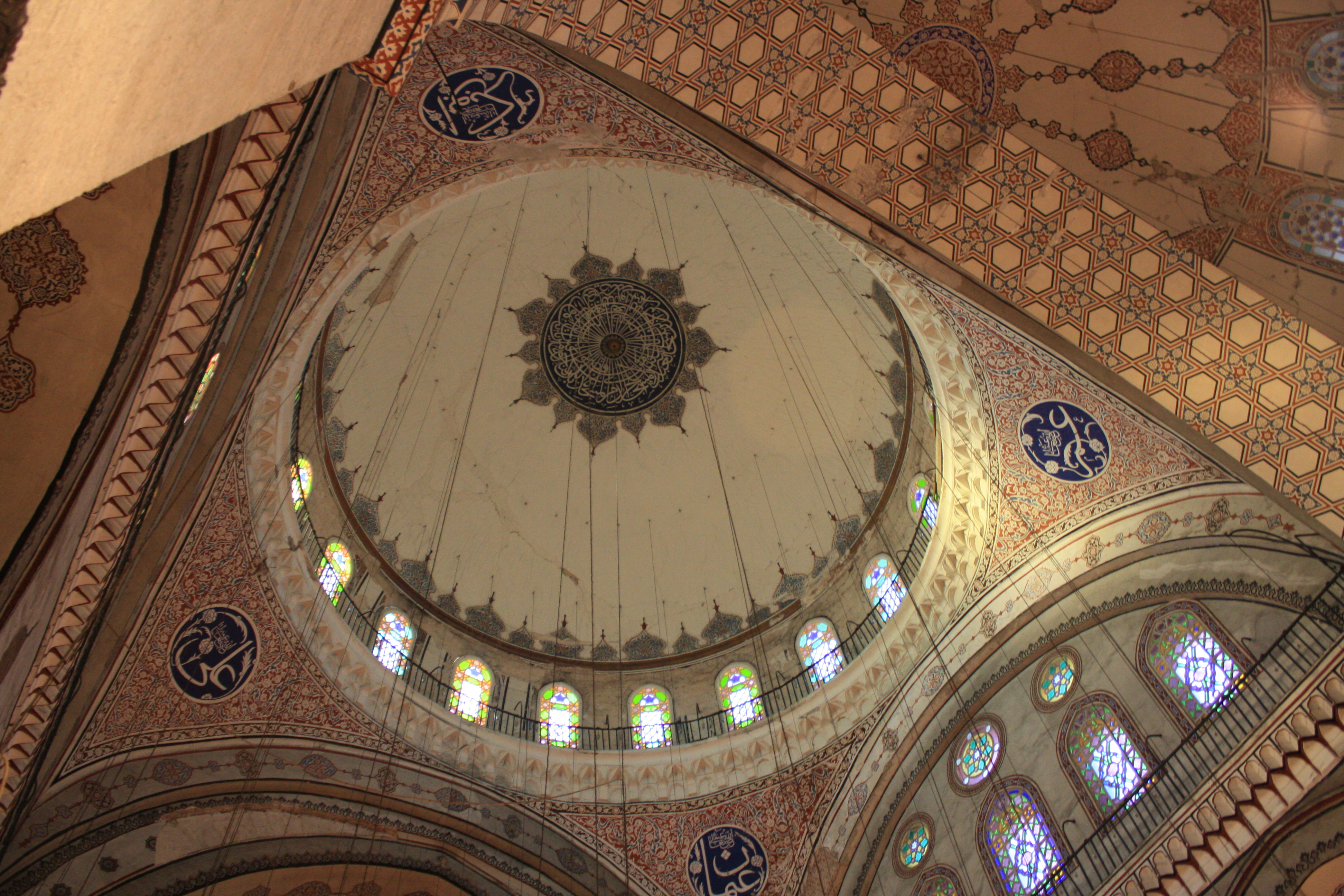 Dome of the Bayezid Mosque in Istanbul.